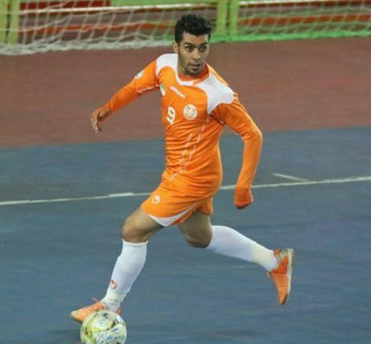 Said taghizadeh